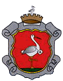 Coat of arms of Počepice (city in Czechia)